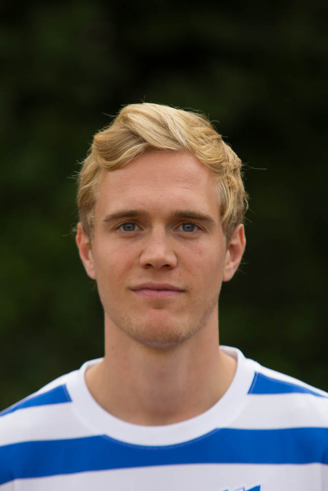 German football player Jens Wissing, MSV Duisburg